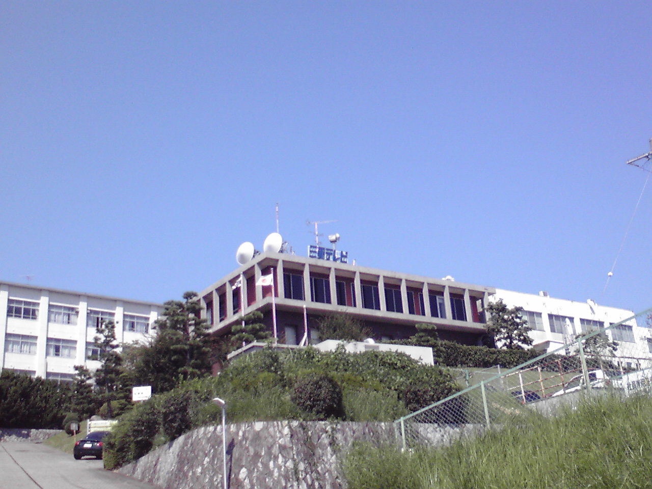 This is the broadcasting station in Mie, Japan.